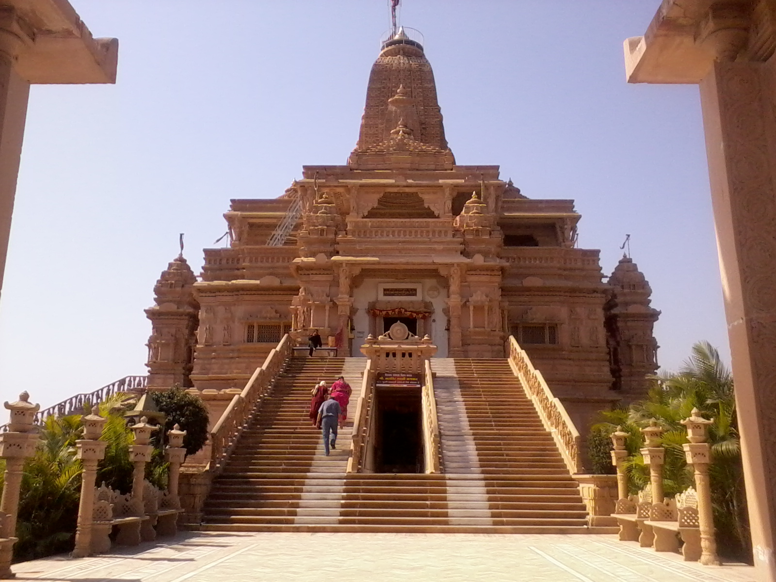 Jain Mandir located at Vilhouli, Nasik